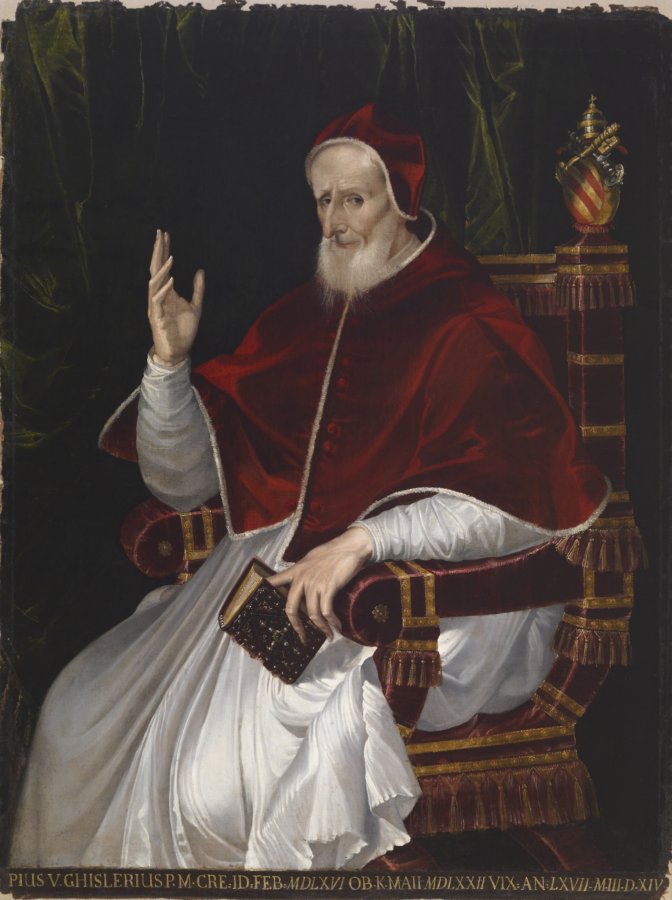 The aging, enthroned pope turns toward the viewer while making the sign of blessing with his right hand. Pius V (1566-1572) belonged to the Ghislieri family, and on the top of the back of the throne is his family's coat of arms crowned by the papal tiara and the keys of St. Peter, a symbol of the papacy's descent from Christ's apostle. The identifying inscription below is a later addition. Passerotti worked in the mannerist style, which is characterized by strikingly elongated proportions. The pope's bony appearance reveals both his age and the artist's knowledge of human anatomy.